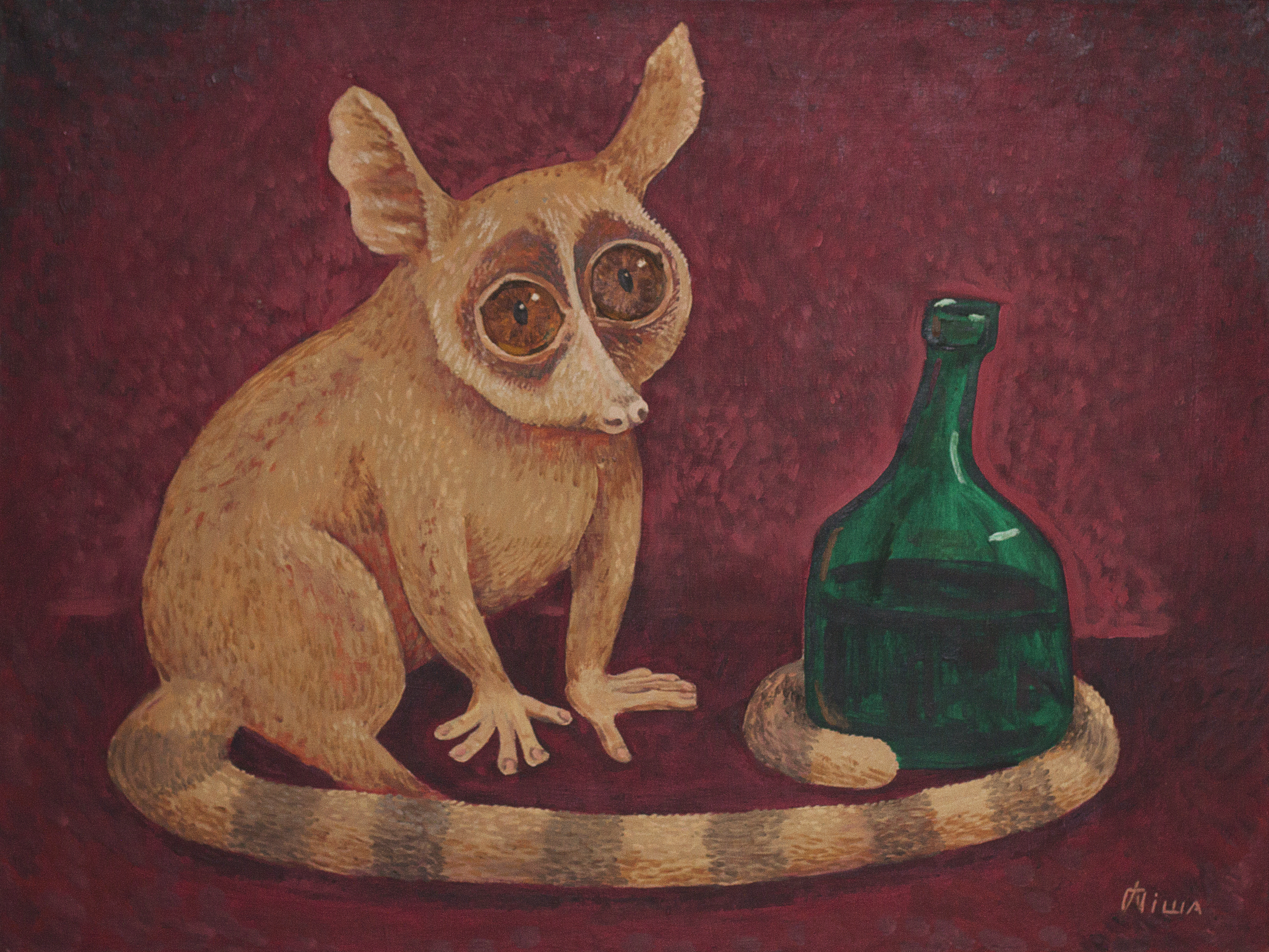 Painting be Pisha Larysa French wine 2000